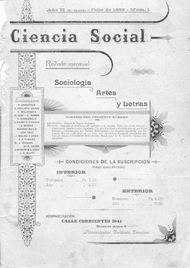 Ciencia Social, cover, anarchist magazine from Argentina, 1898.